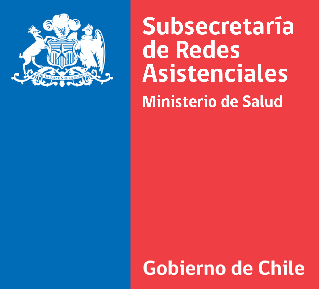 logo of the Undersecretary of Assistance Networks.